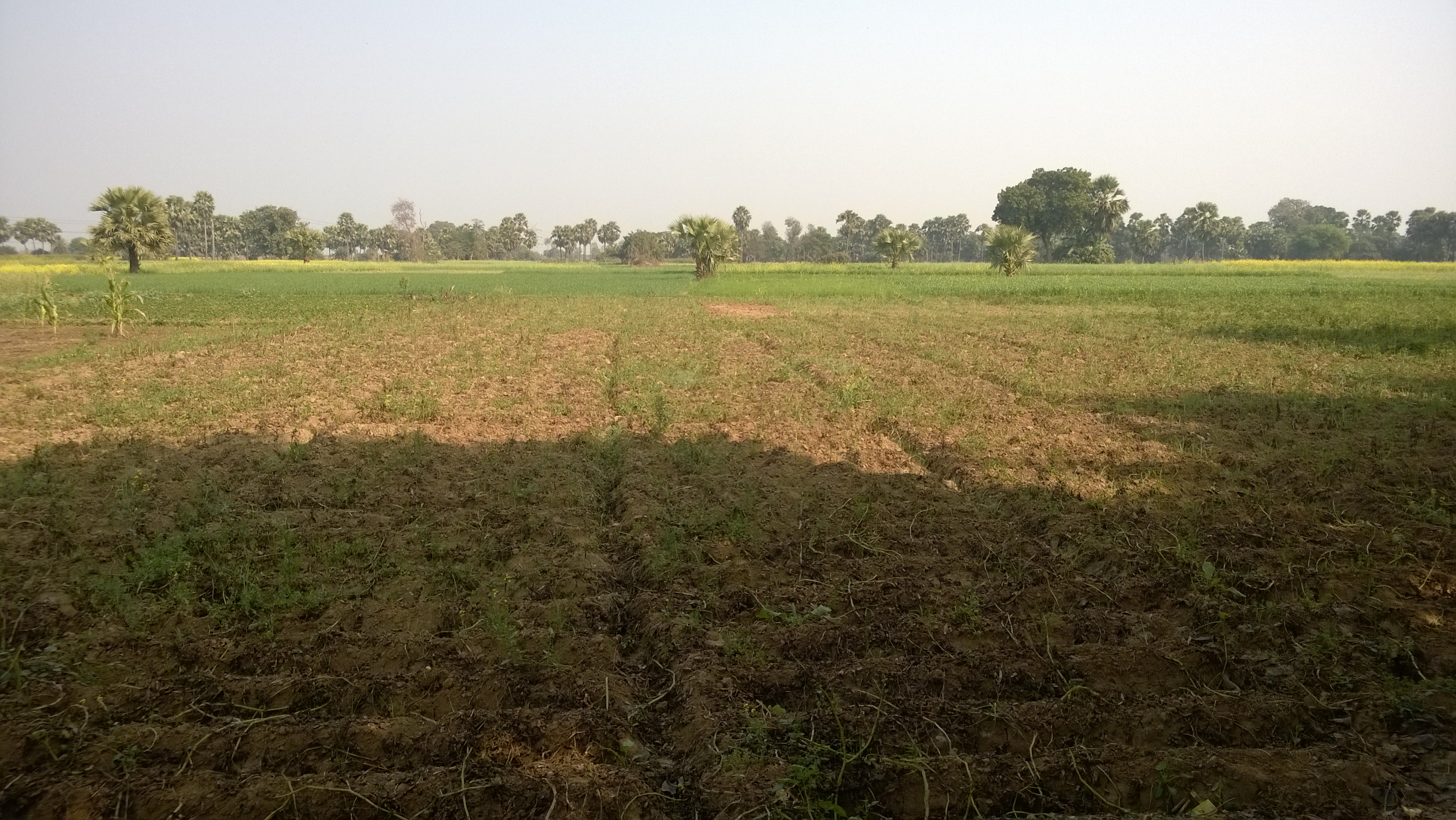 sdv W